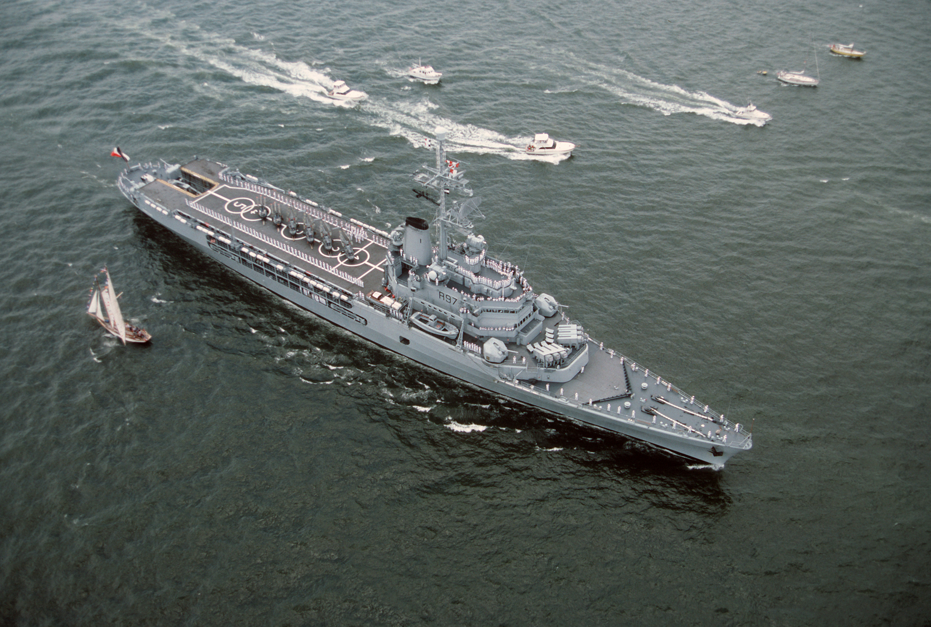 Crew members aboard the French helicopter carrier JEANNE D'ARC (R 97) man the rails during the International Naval Review. (Released to Public) Location: NEW YORK HARBOR, NEW YORK (NY) UNITED STATES OF AMERICA (USA)